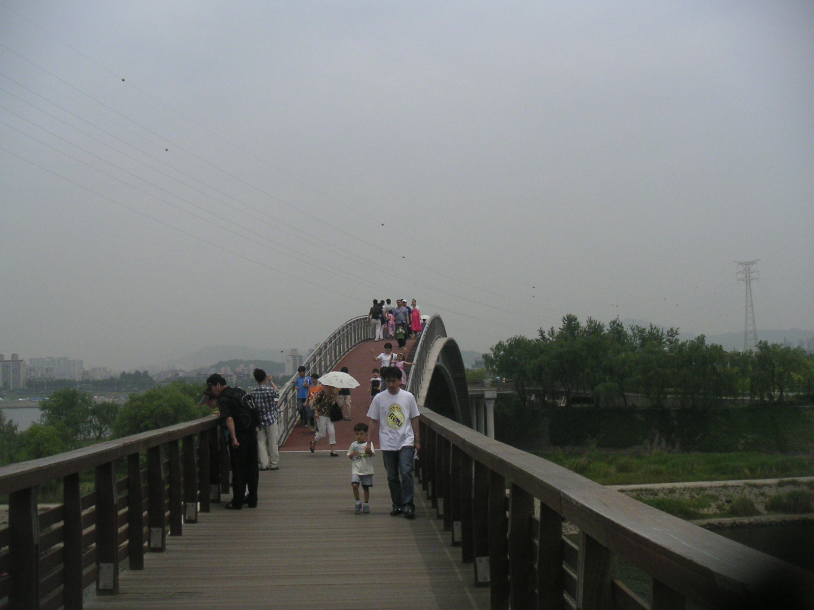 선유도공원 (Seonyudo Park)